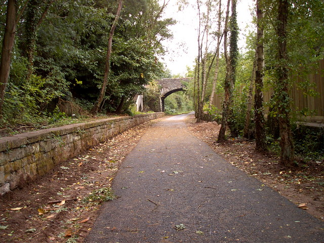 Gilwern old railway station. This station is on the old line from Merthyr Tydfil to Abergavenny and is now part of national cycle route 46